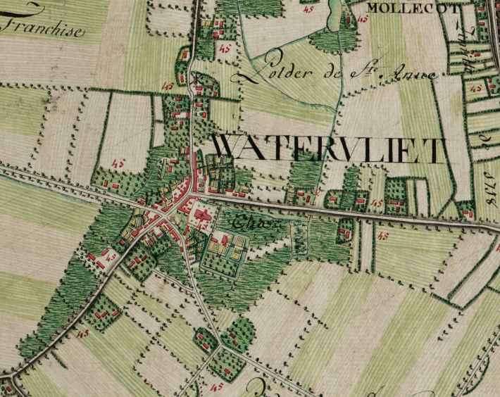 Watervliet, Belgium_;_ detail from Ferraris_Map